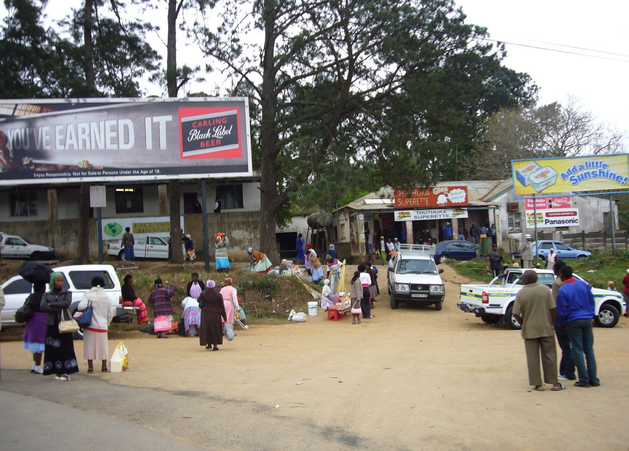 The town centers are alive with people engaging in all sorts of activities